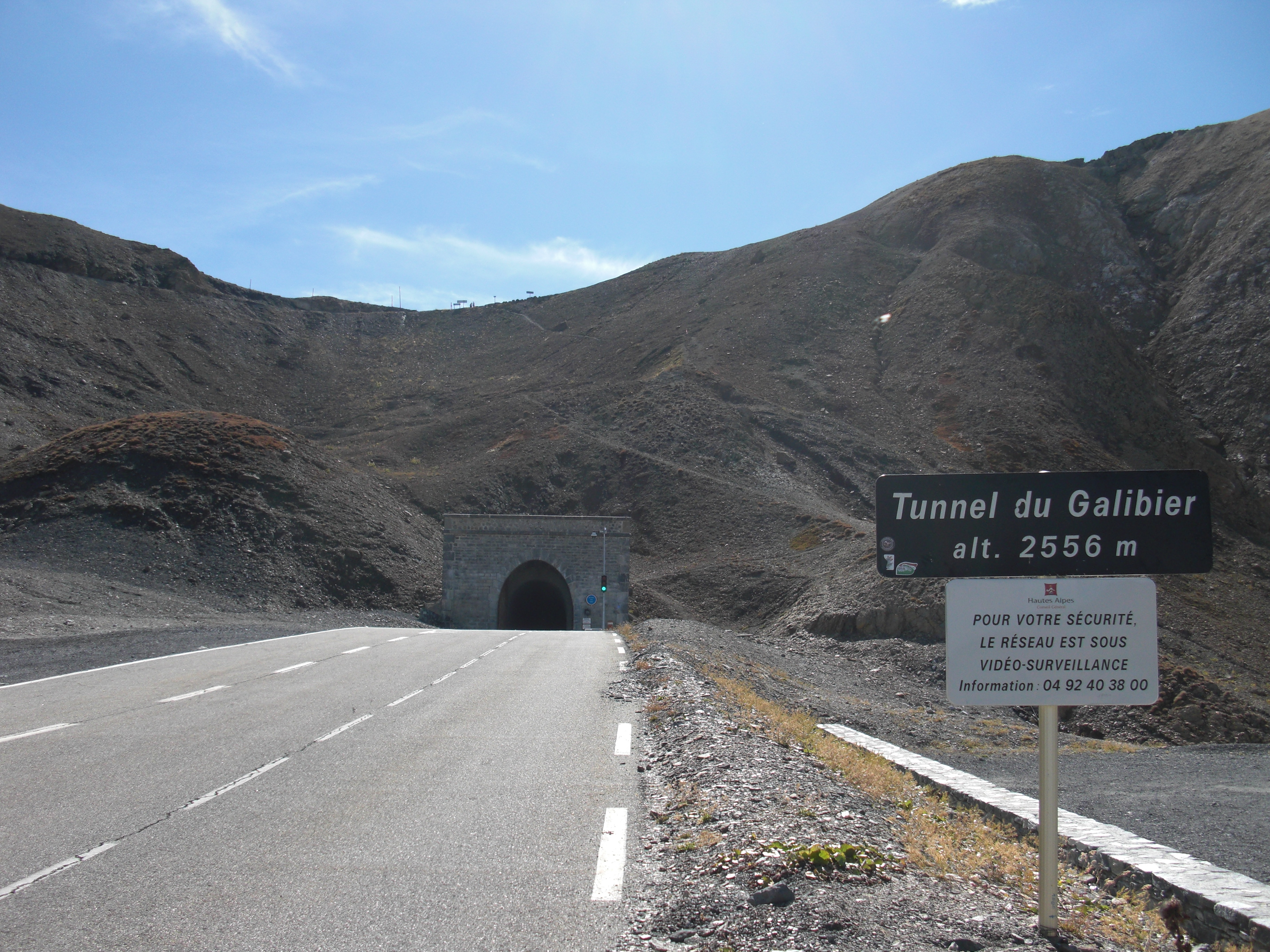 Tunnel du Galibier: Northern entrance